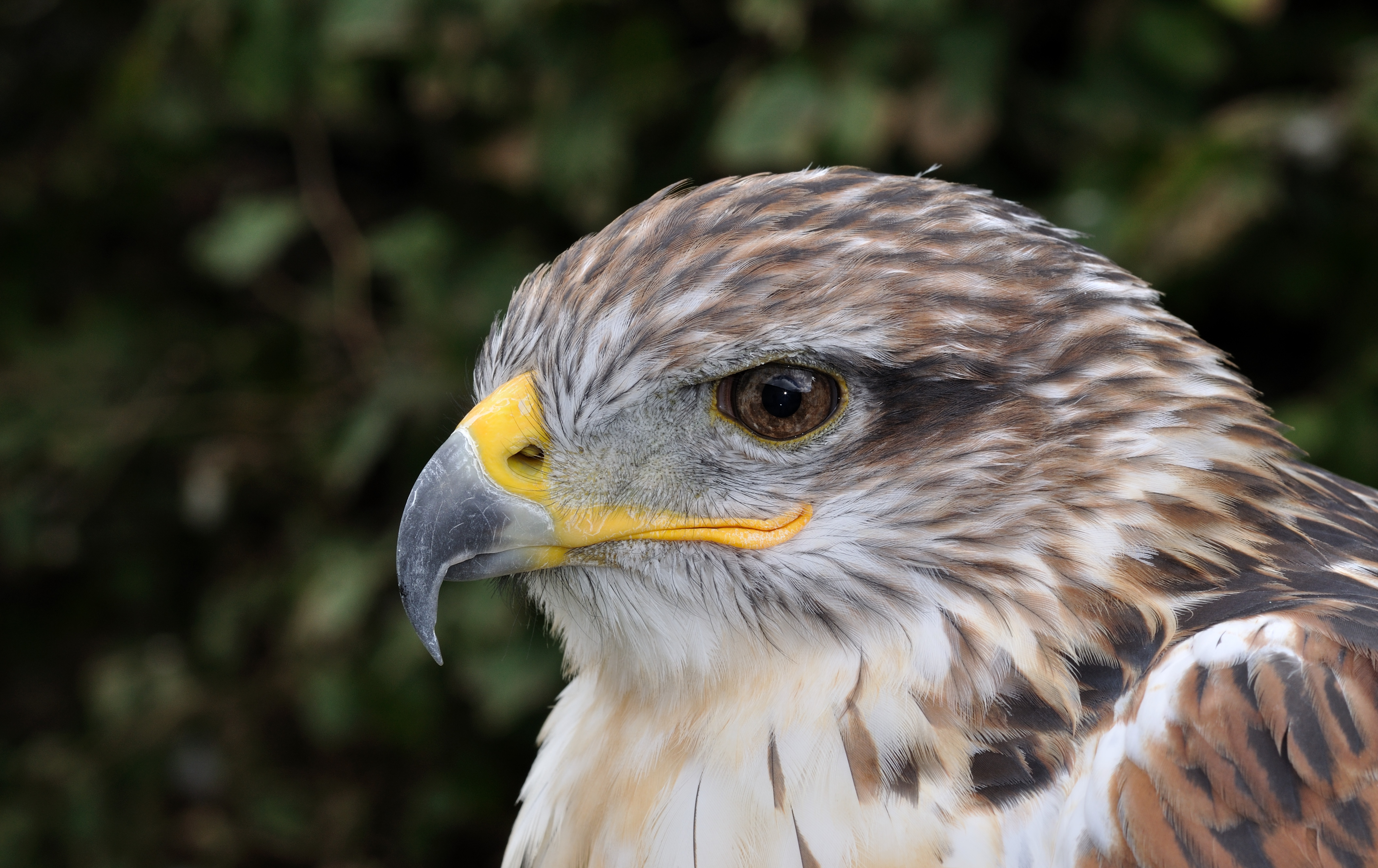 Ferruginous Hawk (Buteo regalis) in the falconry Falkenhof Feldberg, Germany.